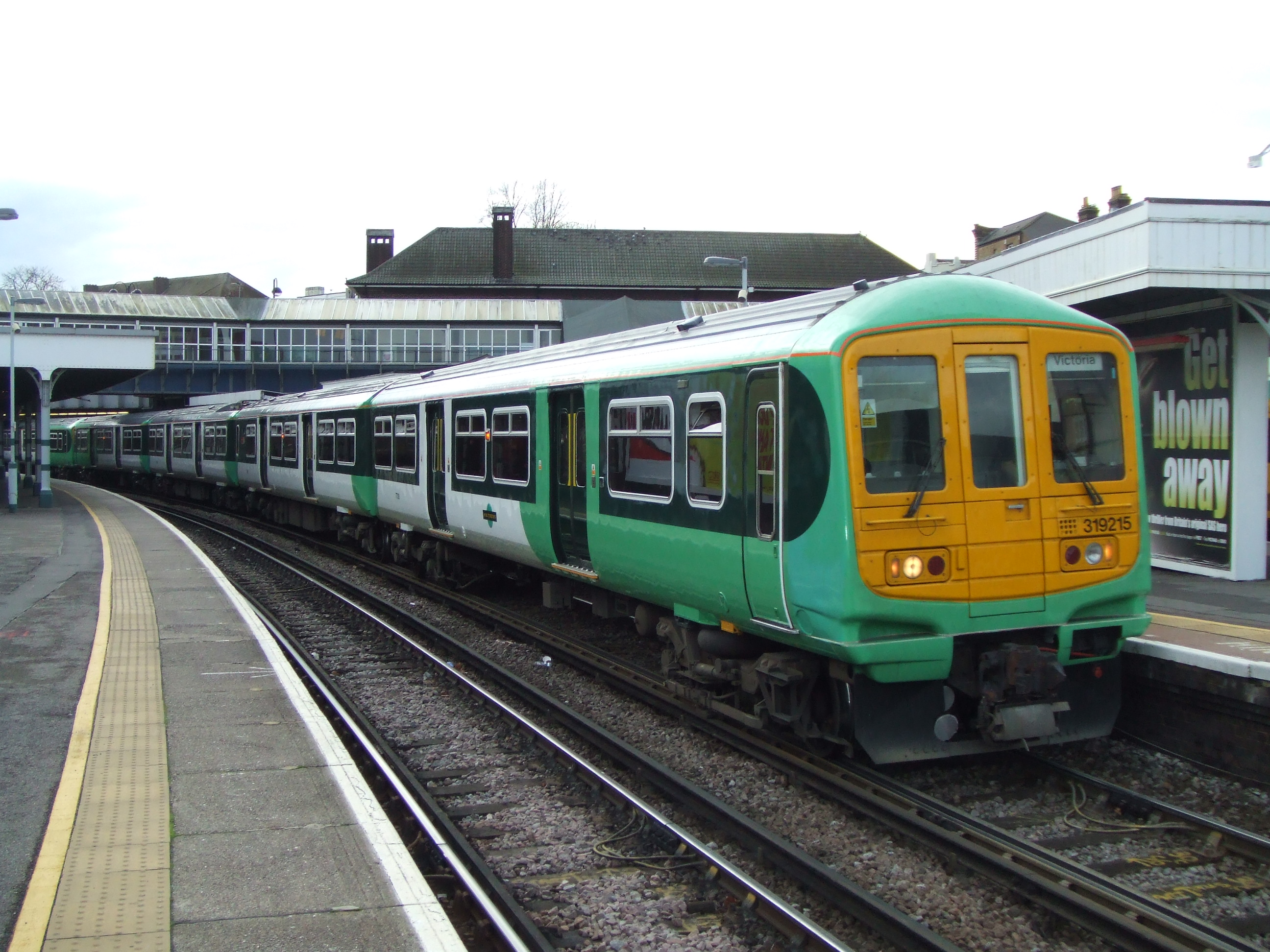 BREL (York) Class 319/2 Standard Class III 25k v ac overhead/750v dc 3rd rail 4-car emu No.319 215 of Southern at Sutton on a Dorking - Victoria service, 11/07.